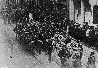 Part of the funeral cortege for Paul Eyschen, eighth Prime Minister of Luxembourg.